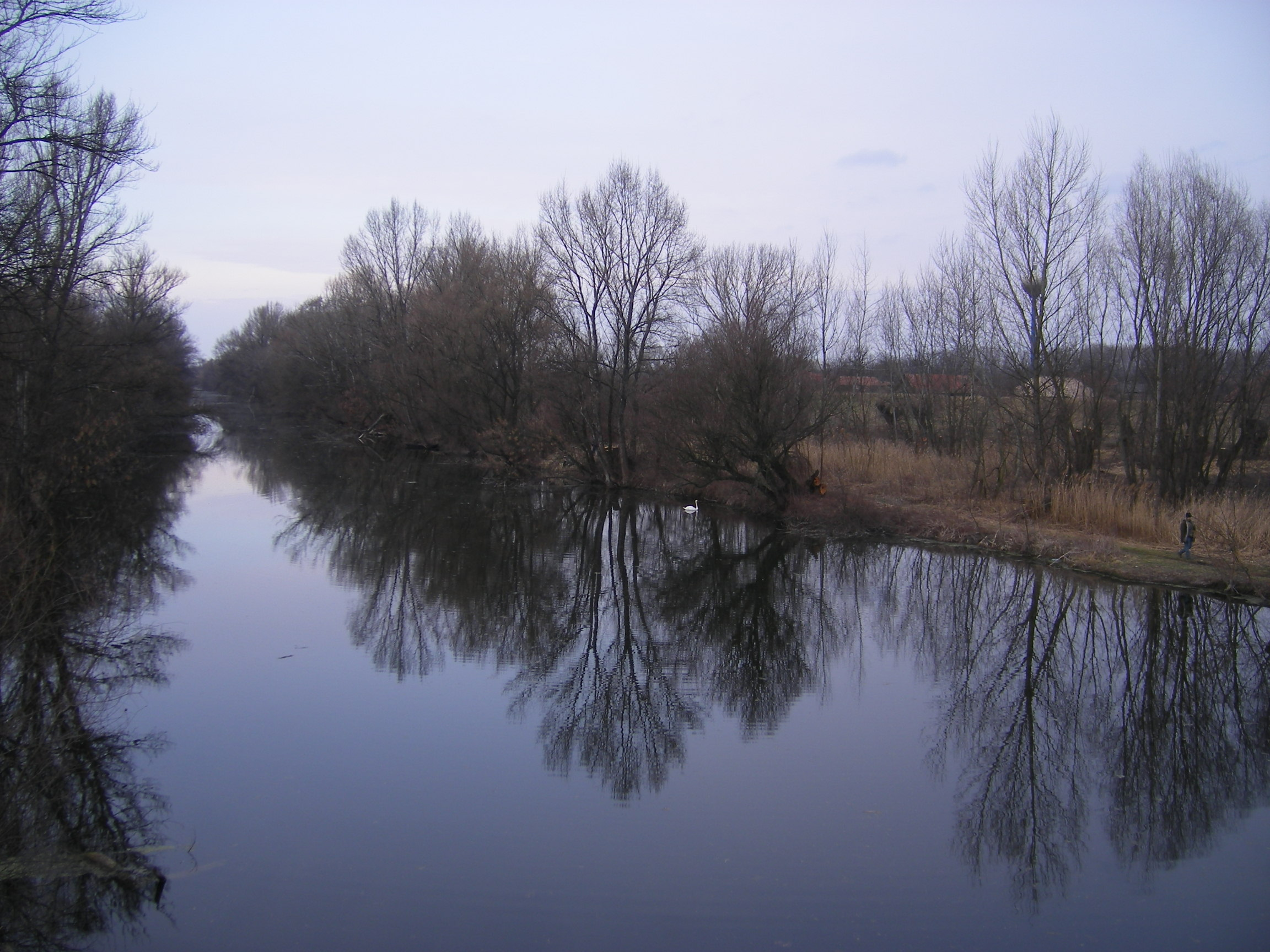 River Nitra in Martovce